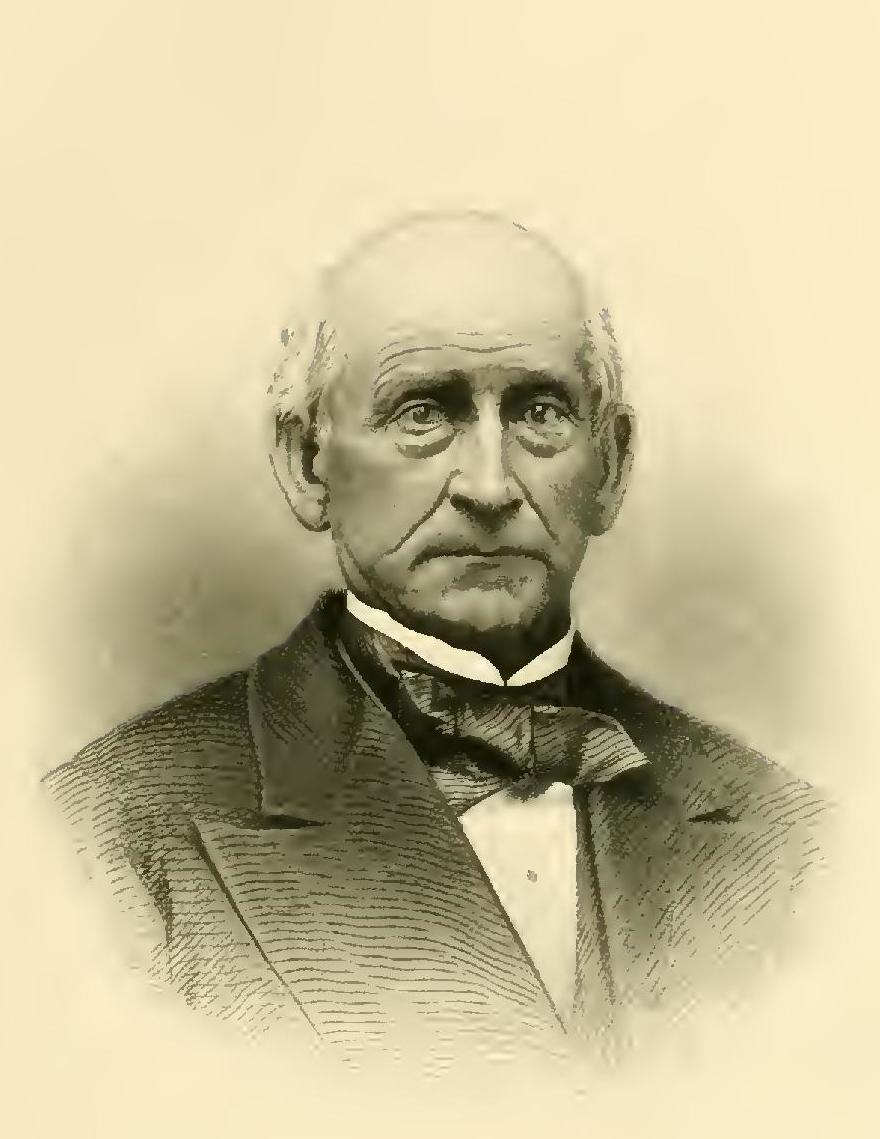 David A. Bunton